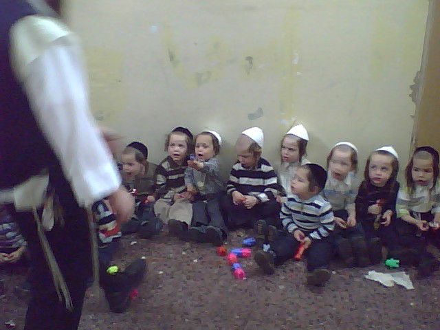 Jerusalem - children from the hassidic sect "Toldot Aharon" (childrens of Aaron)